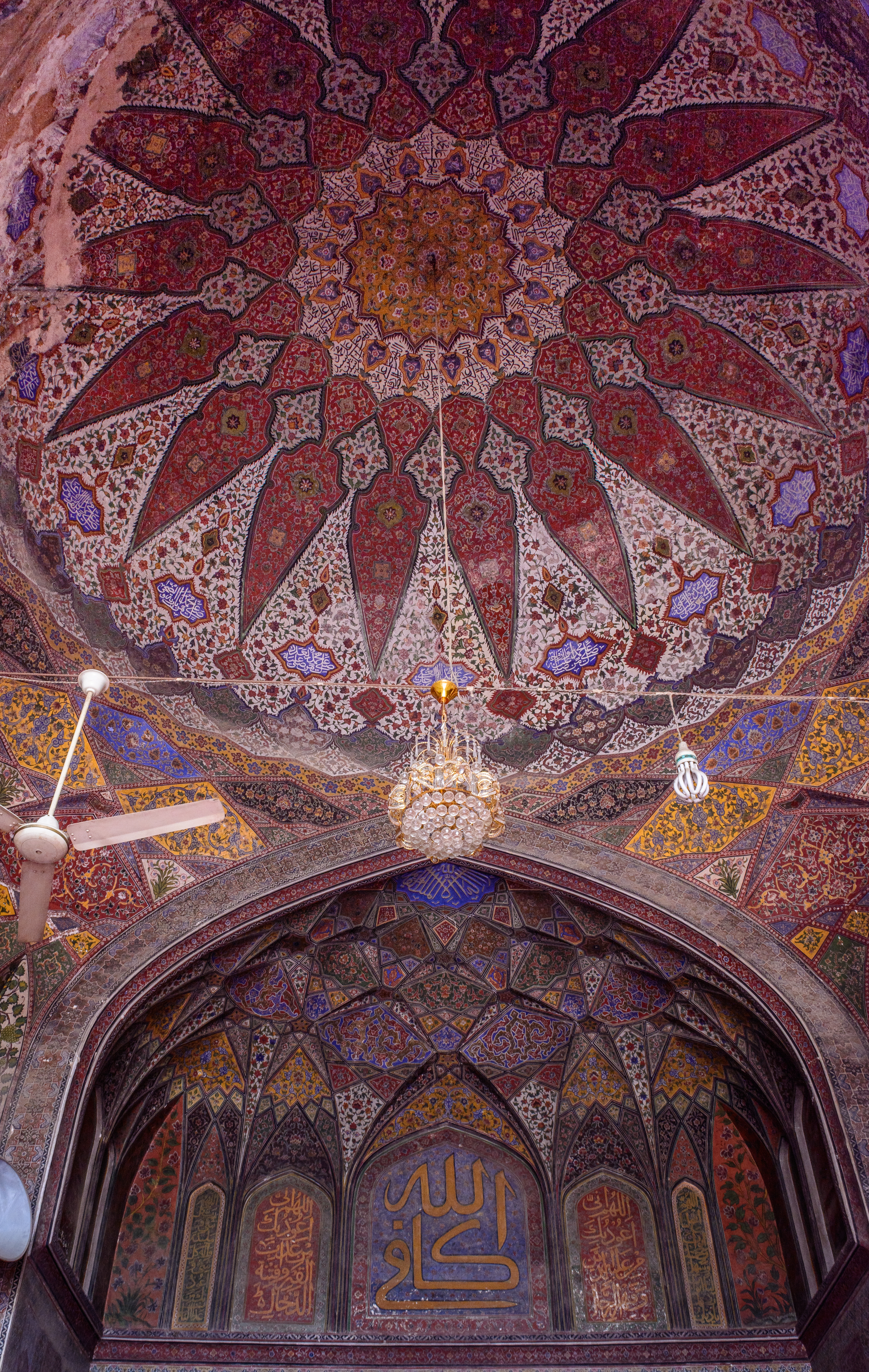 Wazir Khan Mosque This is a photo of a monument in Pakistan identified as the PB-100